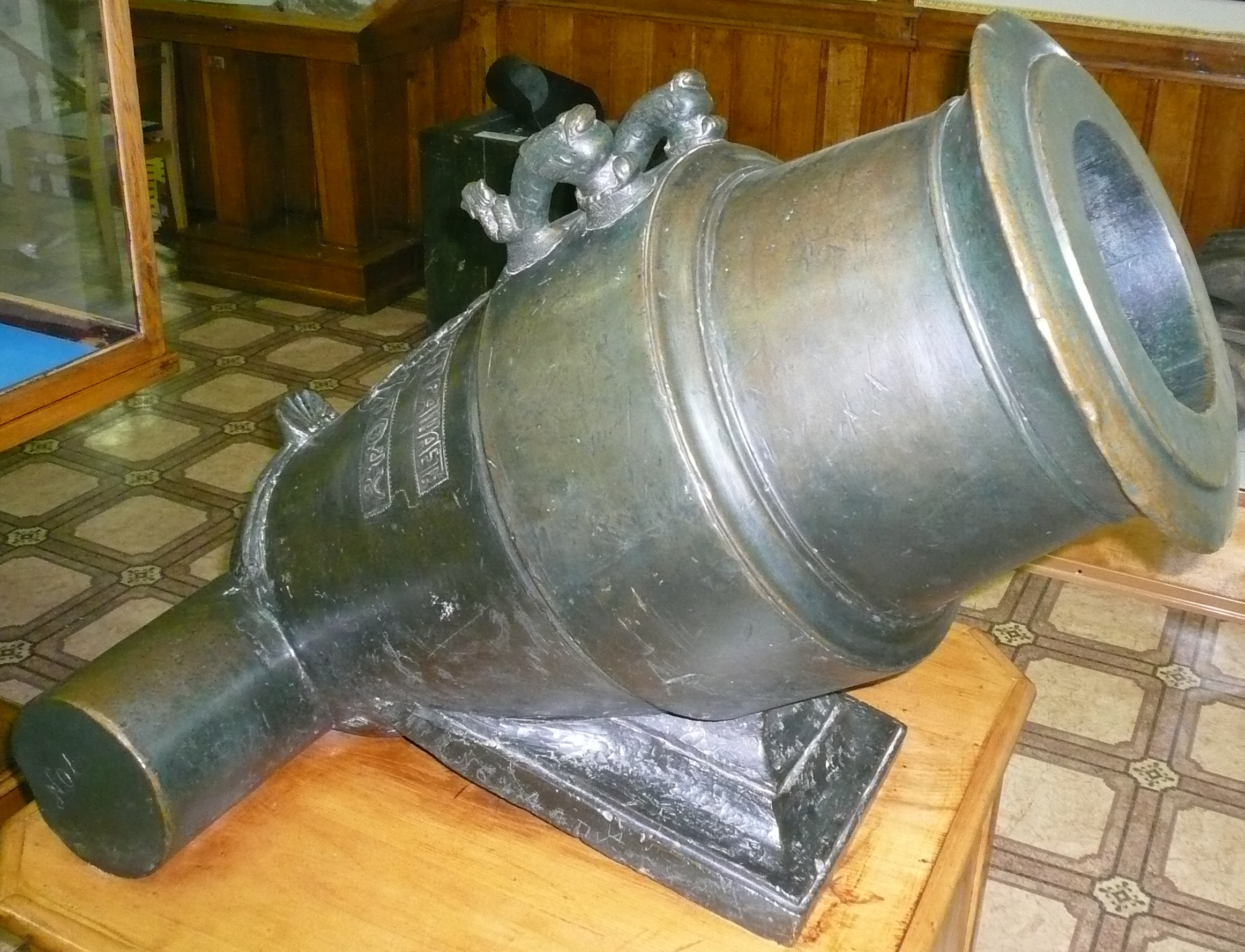 Russian mortar, 1727